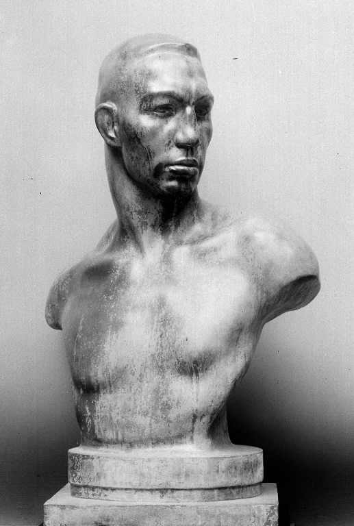 Kai Nielsen (1882-1924), Bokseren Emil Andreasen, 1922